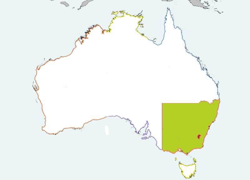 Map of the Australian states / Mapa dels estats australians